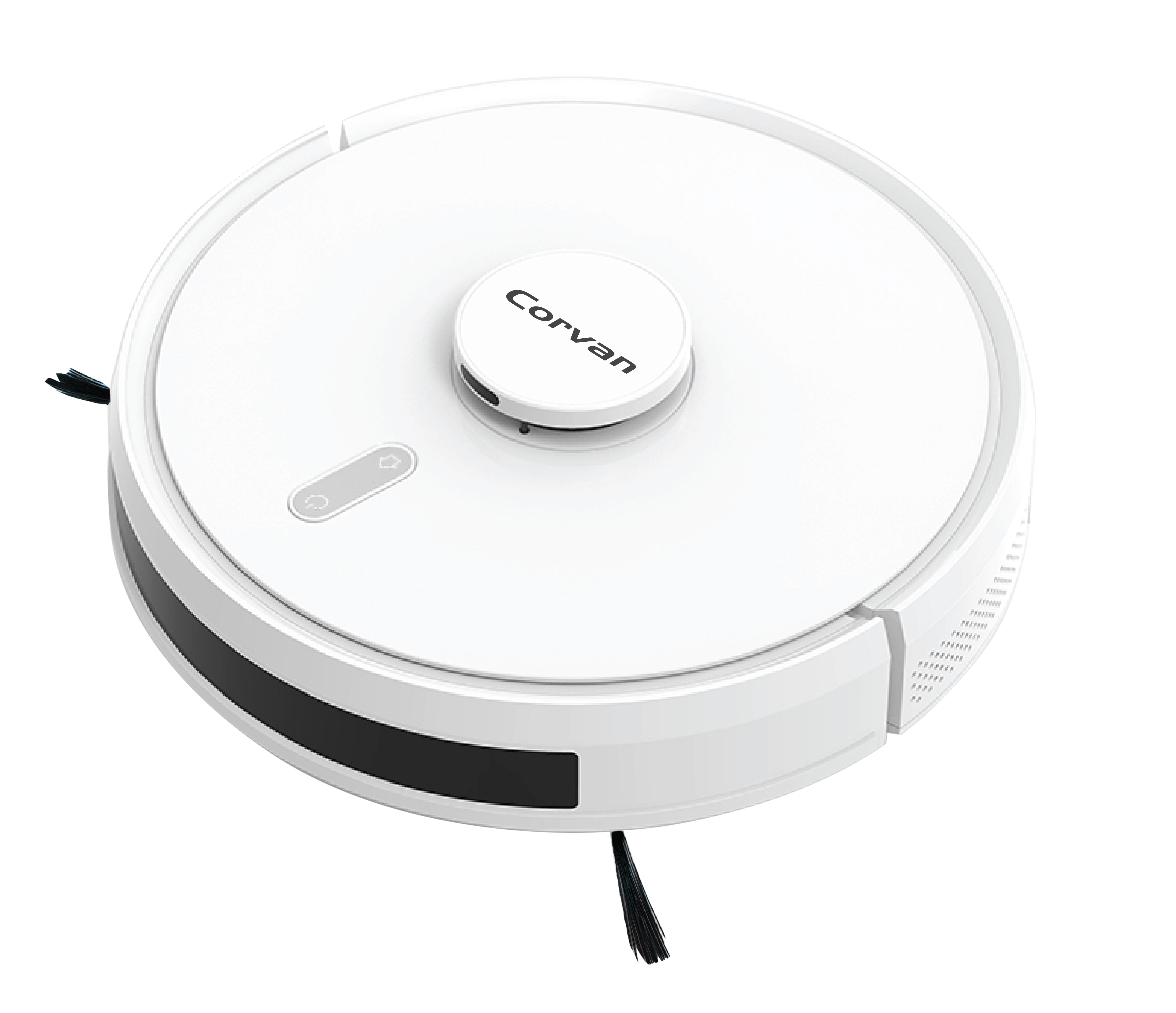 LiDAR mapping and IR sensing enable picaBot to navigate around obstacles smoothly